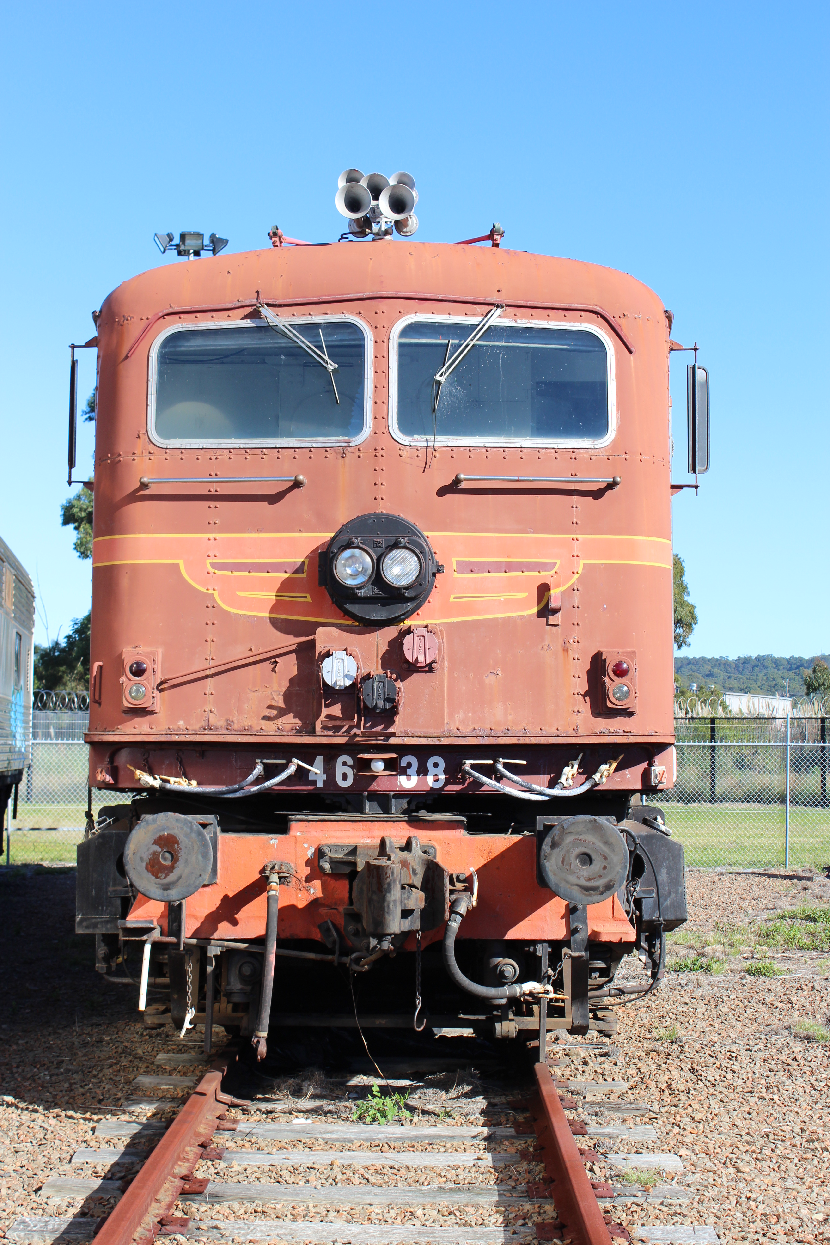 End view of preserved 4638 stored at Broadmeadow loco depot